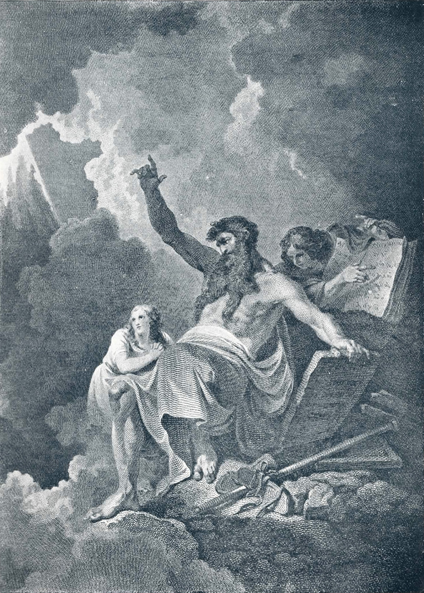 Illustrated plate from the book